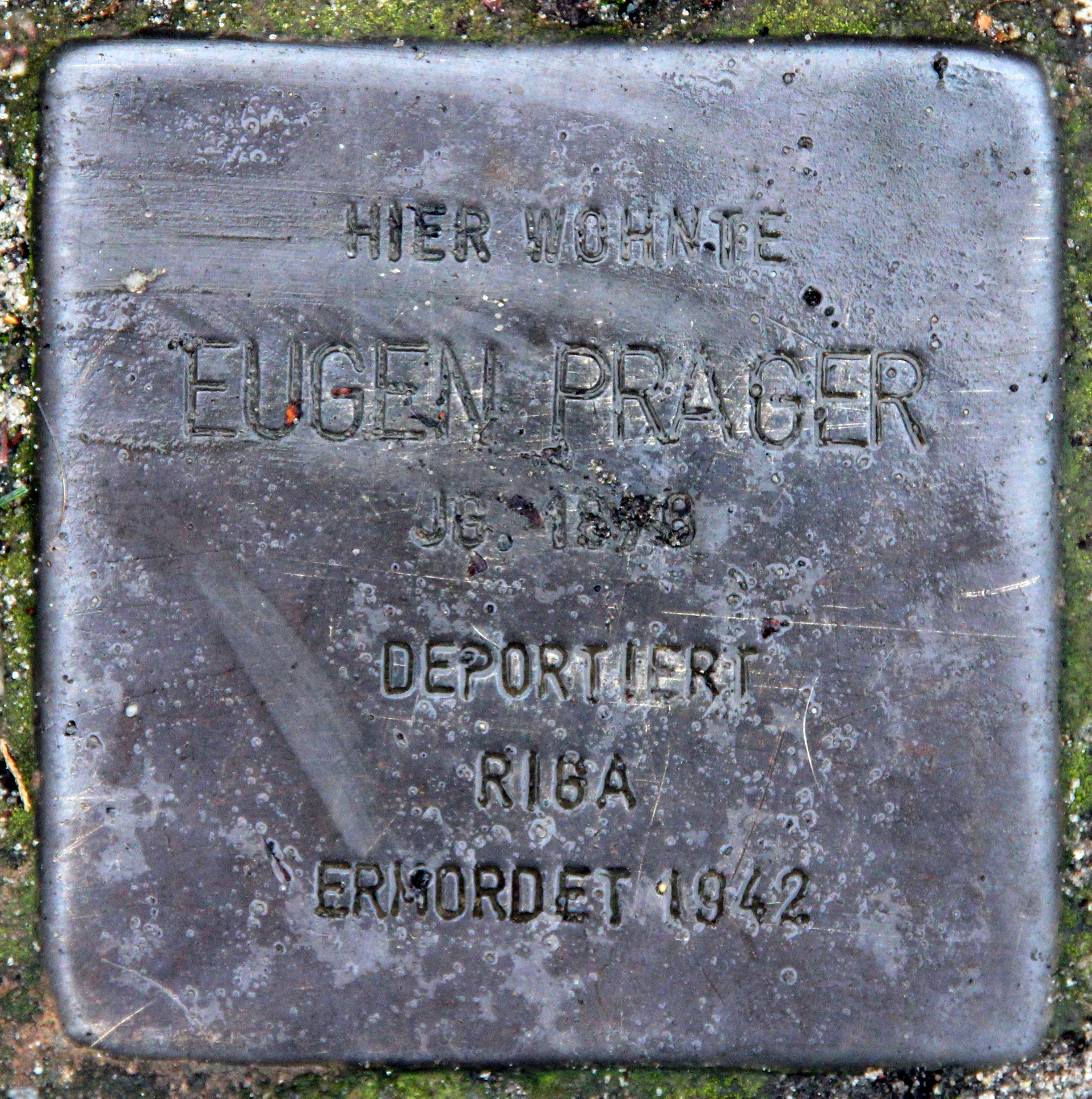 "Stolperstein" (stumbling block), Eugen Prager, Riemeisterstraße 78, Berlin-Zehlendorf, Germany Koordinate:52°26′50″N 13°15′27″E / 52.44722°N 13.2575°E